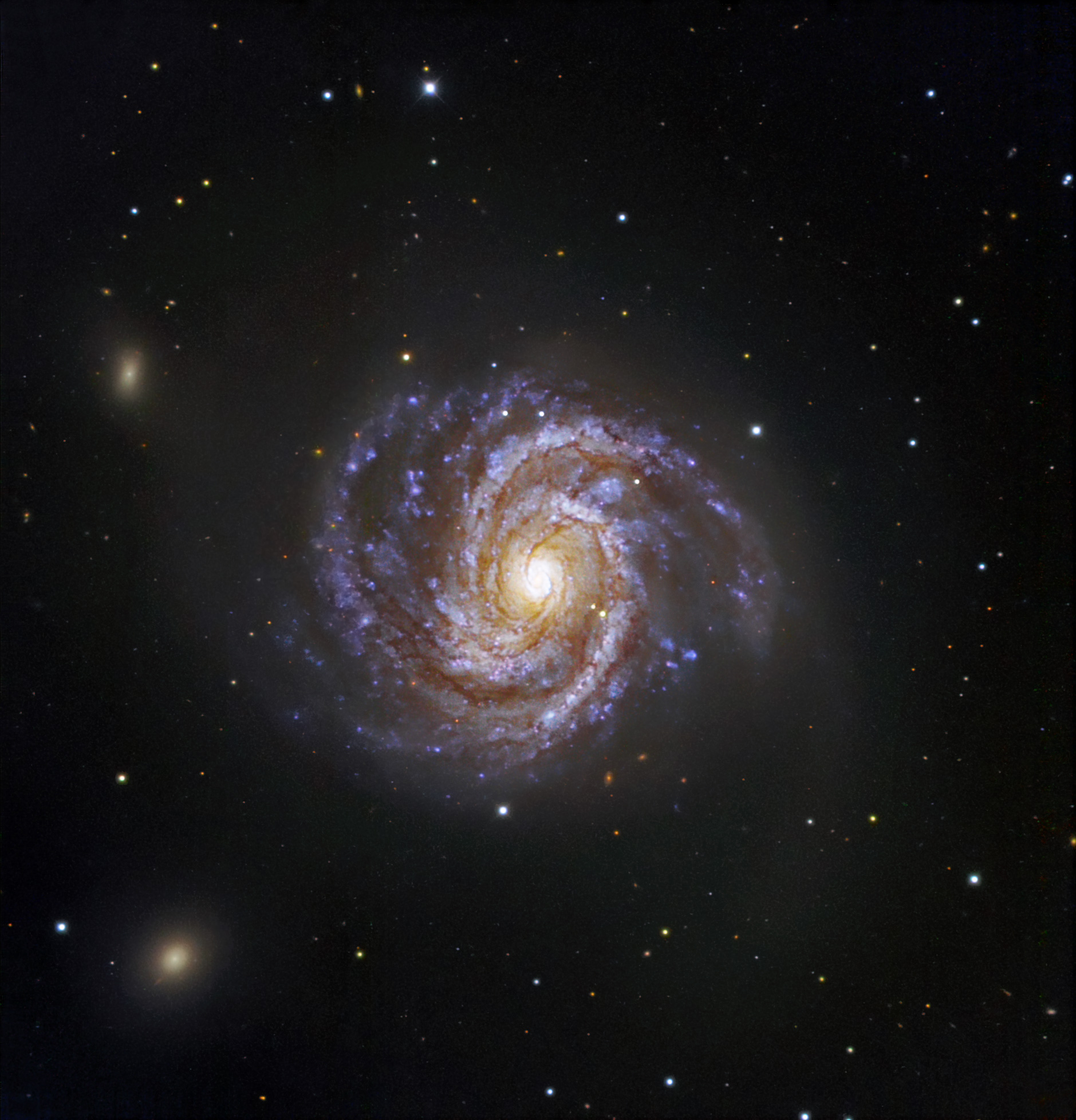 Similar in appearance to our own Milky Way, Messier 100 is a grand spiral galaxy that presents an intricate structure, with a bright core and two prominent arms. The galaxy harbours numerous young and hot massive stars as well as extremely hot regions of ionised hydrogen. Two smaller arms are seen emerging from the centre and reaching towards the larger spiral arms. The galaxy, located 60 million light-years away, is slightly larger than the Milky Way, with a diameter of about 120,000 light-years. A supernova was discovered in M100 on 4 February 2006. Named SN 2006X, it is the 5th supernova to have been found in M100 since 1900. This image is based on data acquired with the 1.5 m Danish telescope at the ESO La Silla Observatory in Chile, through three filters (B: 1390 s, V: 480 s, R: 245 s). The supernova is the brighter of the two stars seen just to the lower right of the galaxy centre.